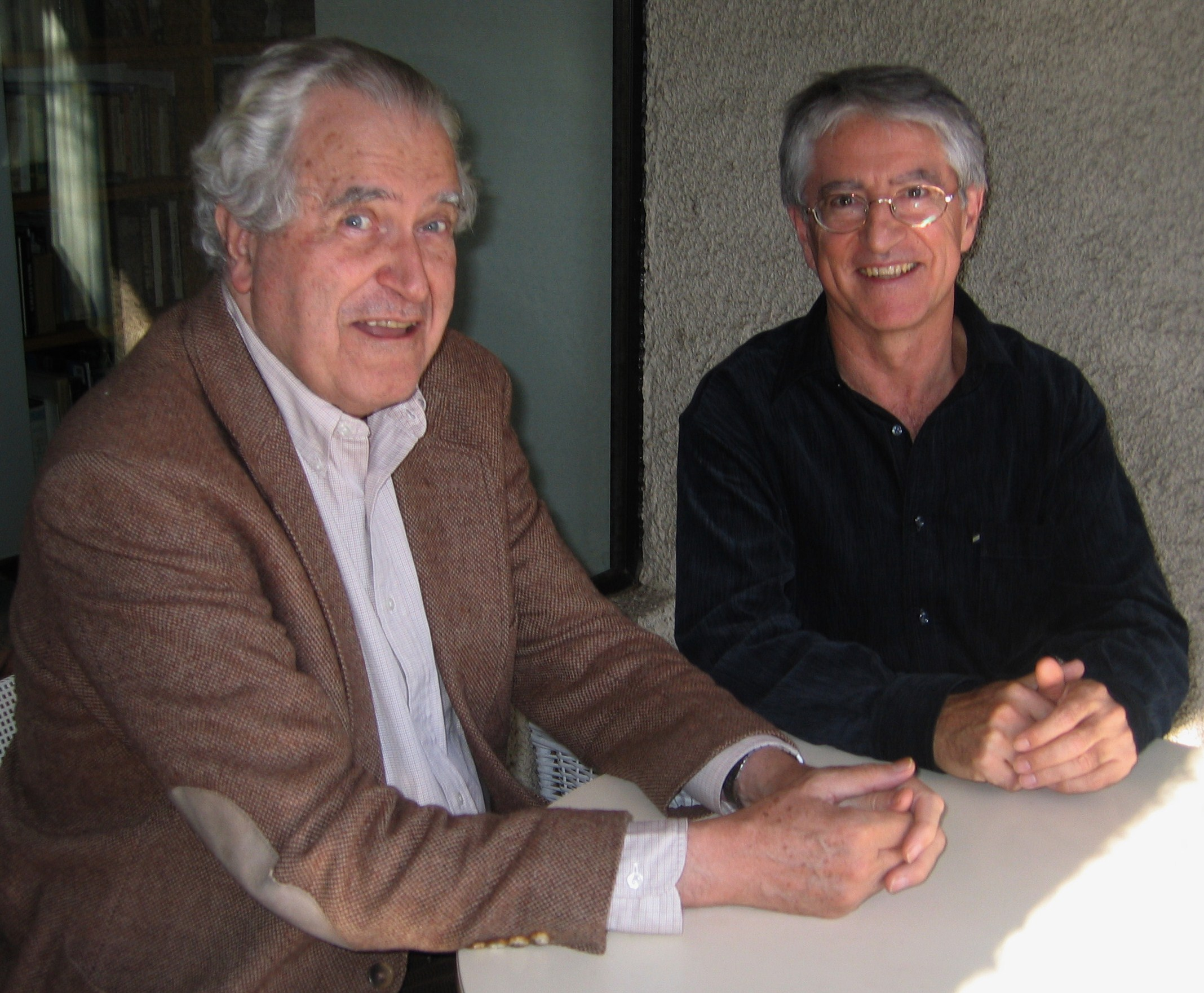 Roberto Torretti (left) with Jesús Mosterín at Torretti's house in Santiago (Chile) in August 2004.